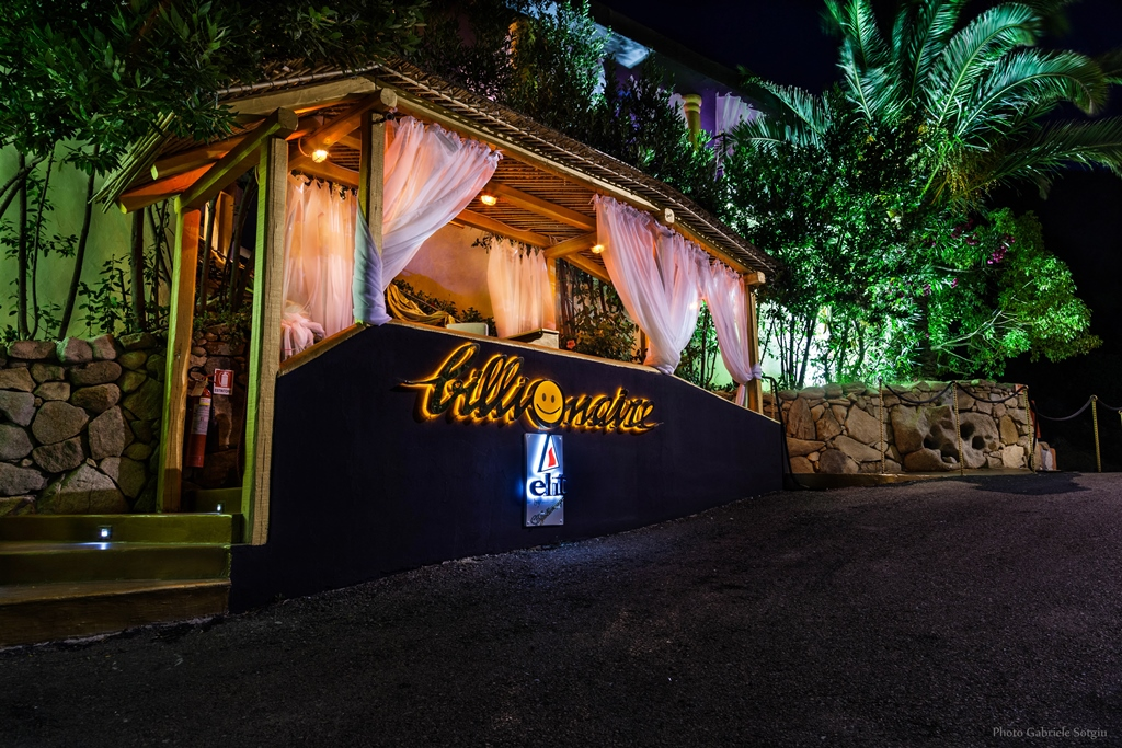 Billionaire Club in Porto Cervo